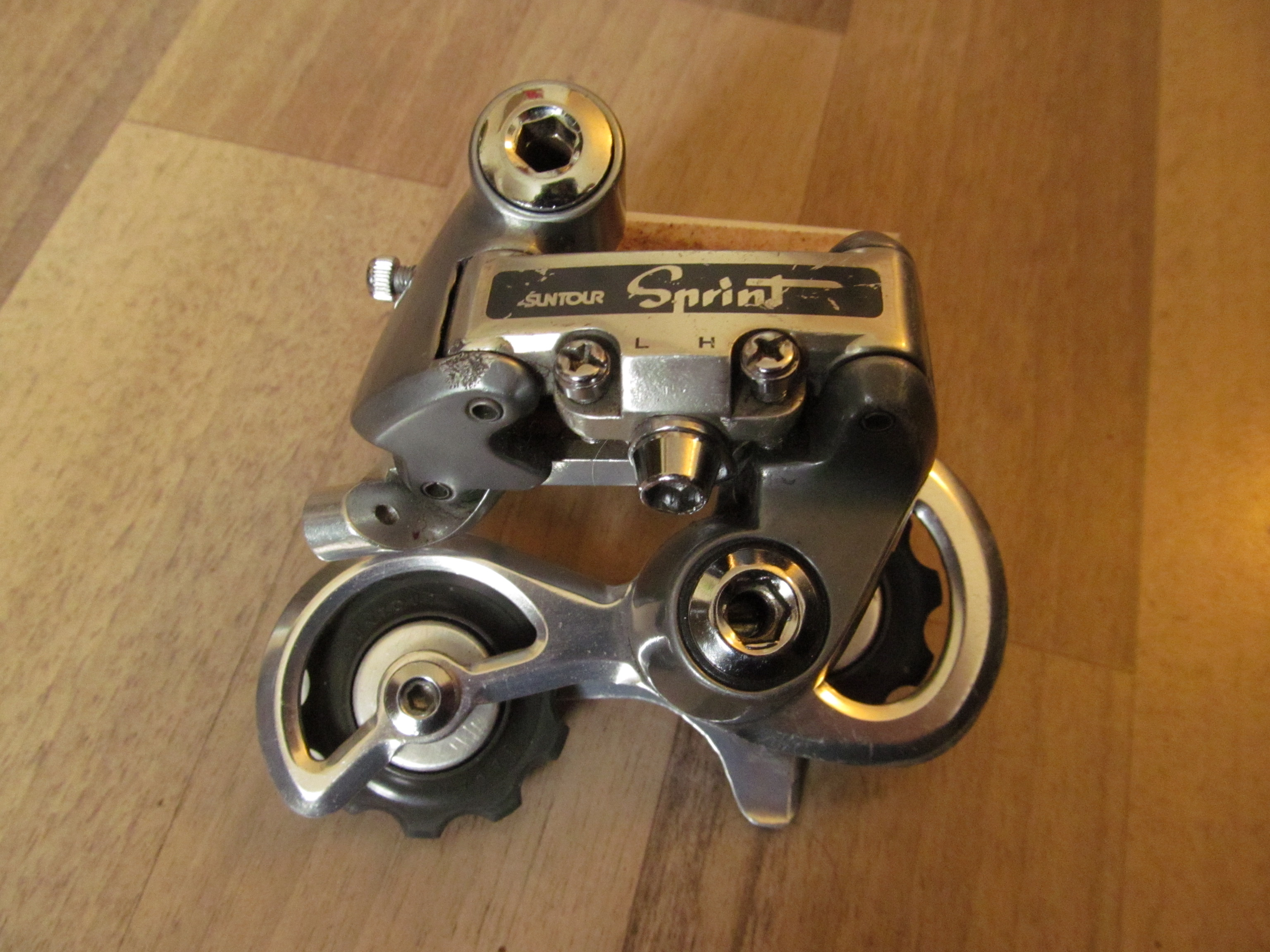 A bicycle rear derailleur, manufactured by Suntour, branded as part of the Sprint gruppo. The photographer tags the original image as 1986 or 1987.